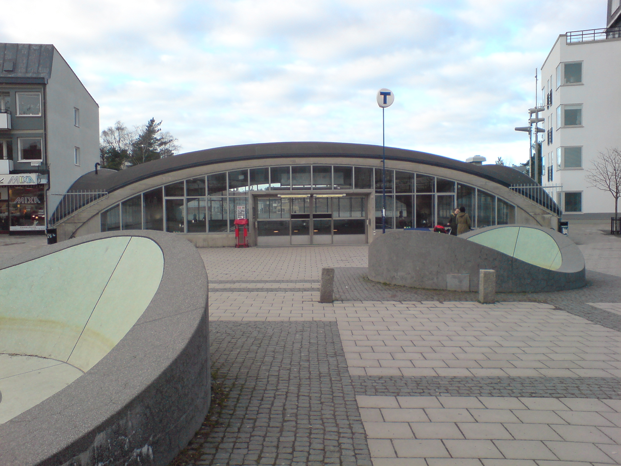 The subway station of Blackeberg, Stockholm, Sweden